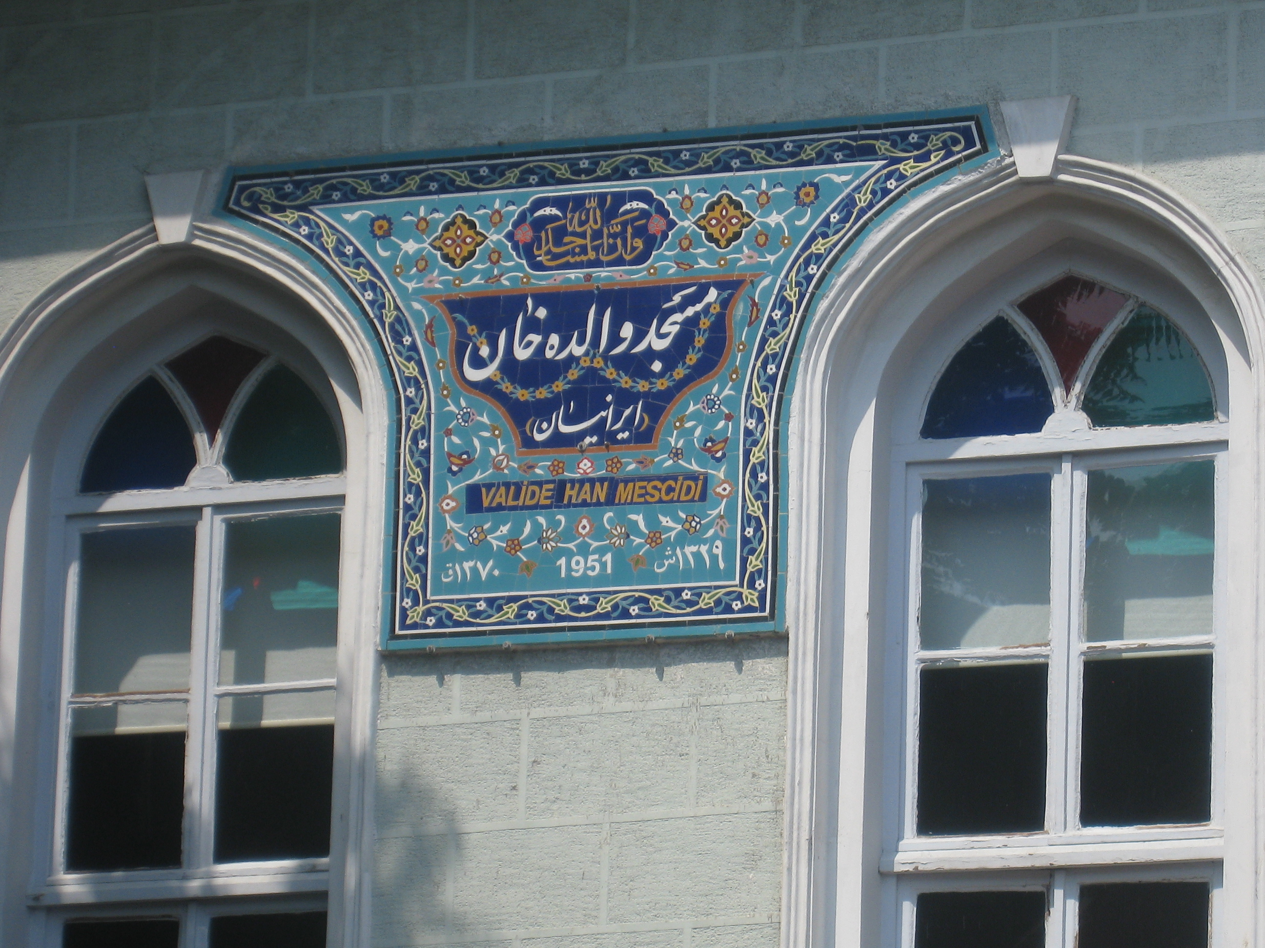 Iranian Mosque at Büyük Valide Han, Istanbul.